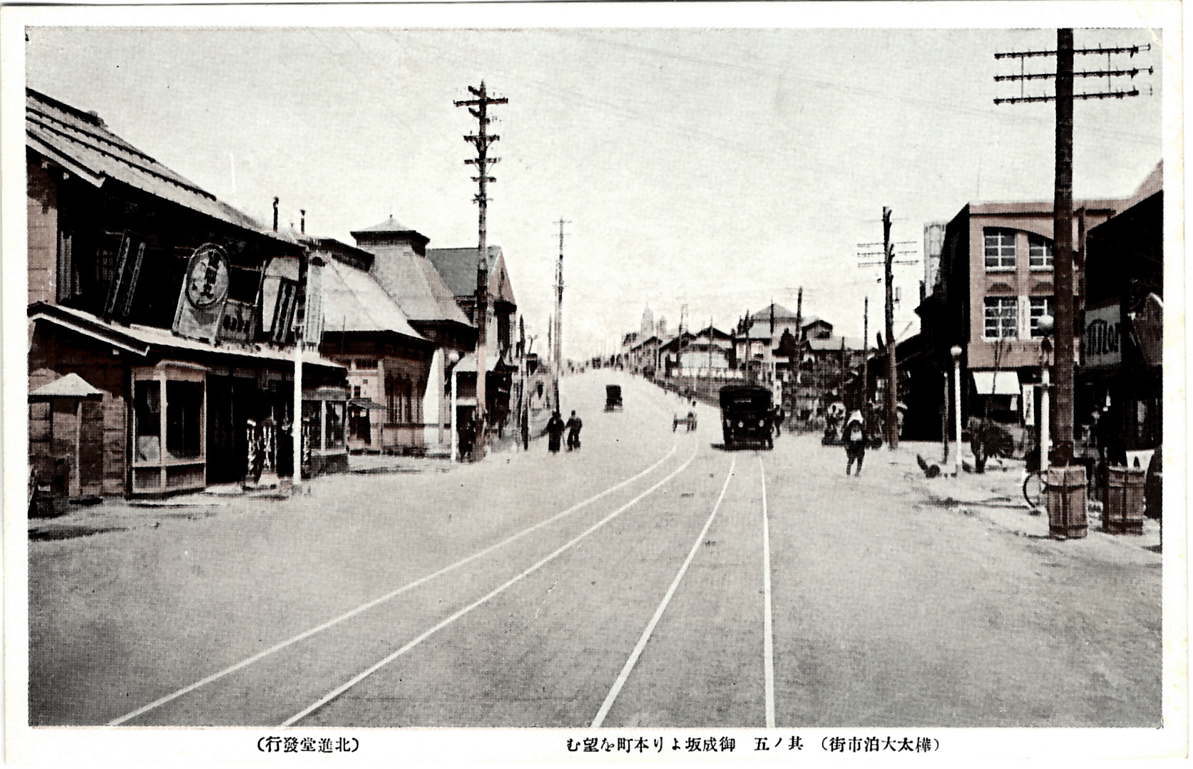 Japanese postcard of post office on Honcho street of Oodomari in Karafuto (now Korsakov, Sakhalin region, Russia)